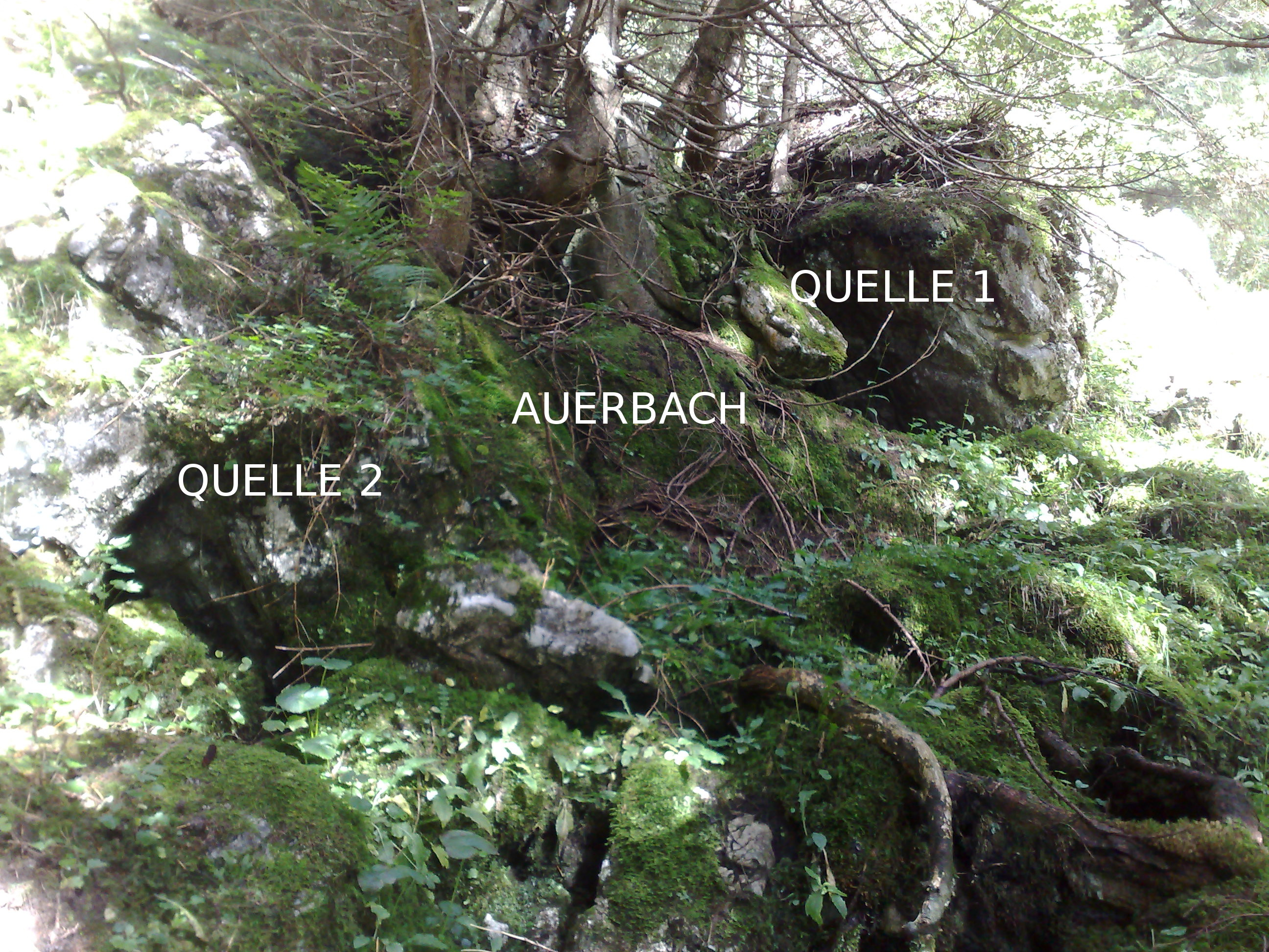 The two, about 5m apart, the main sources of Auerbach.